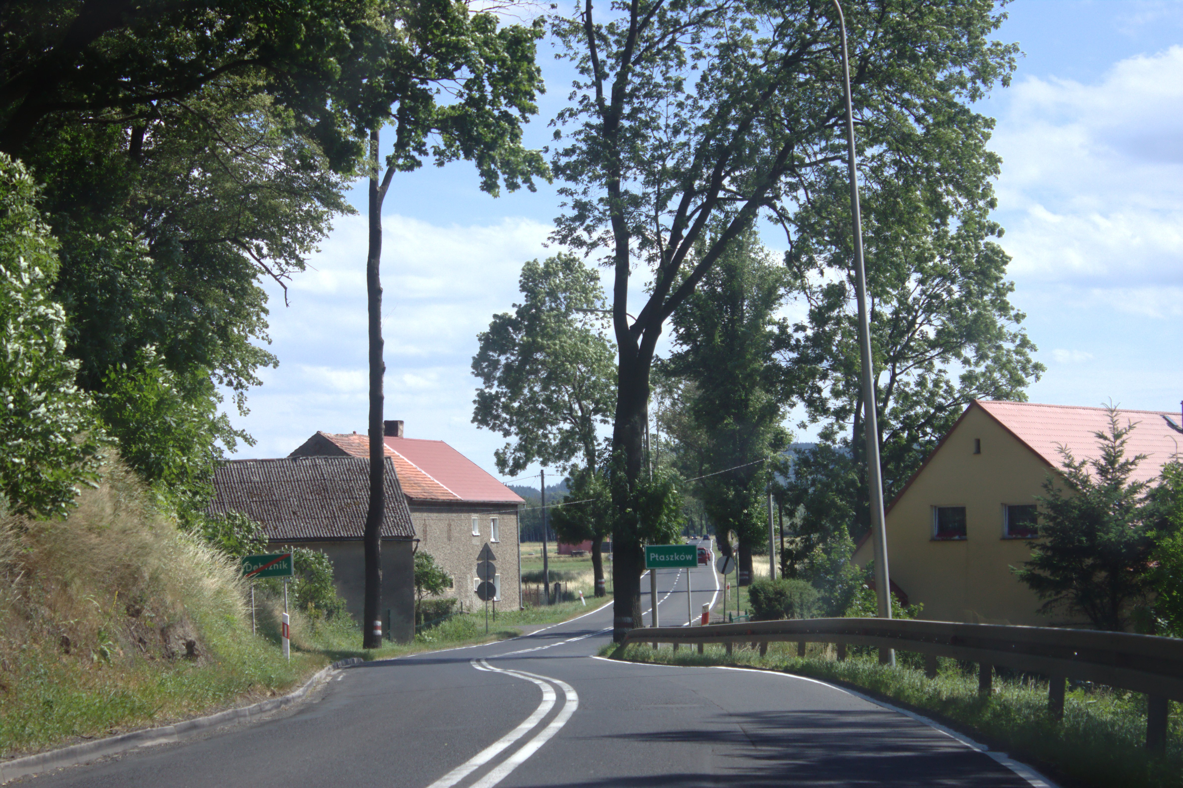 This photograph was created as a part of Wikiexpedition Lower Silesia, a project supported by Wikimedia Poland grant.